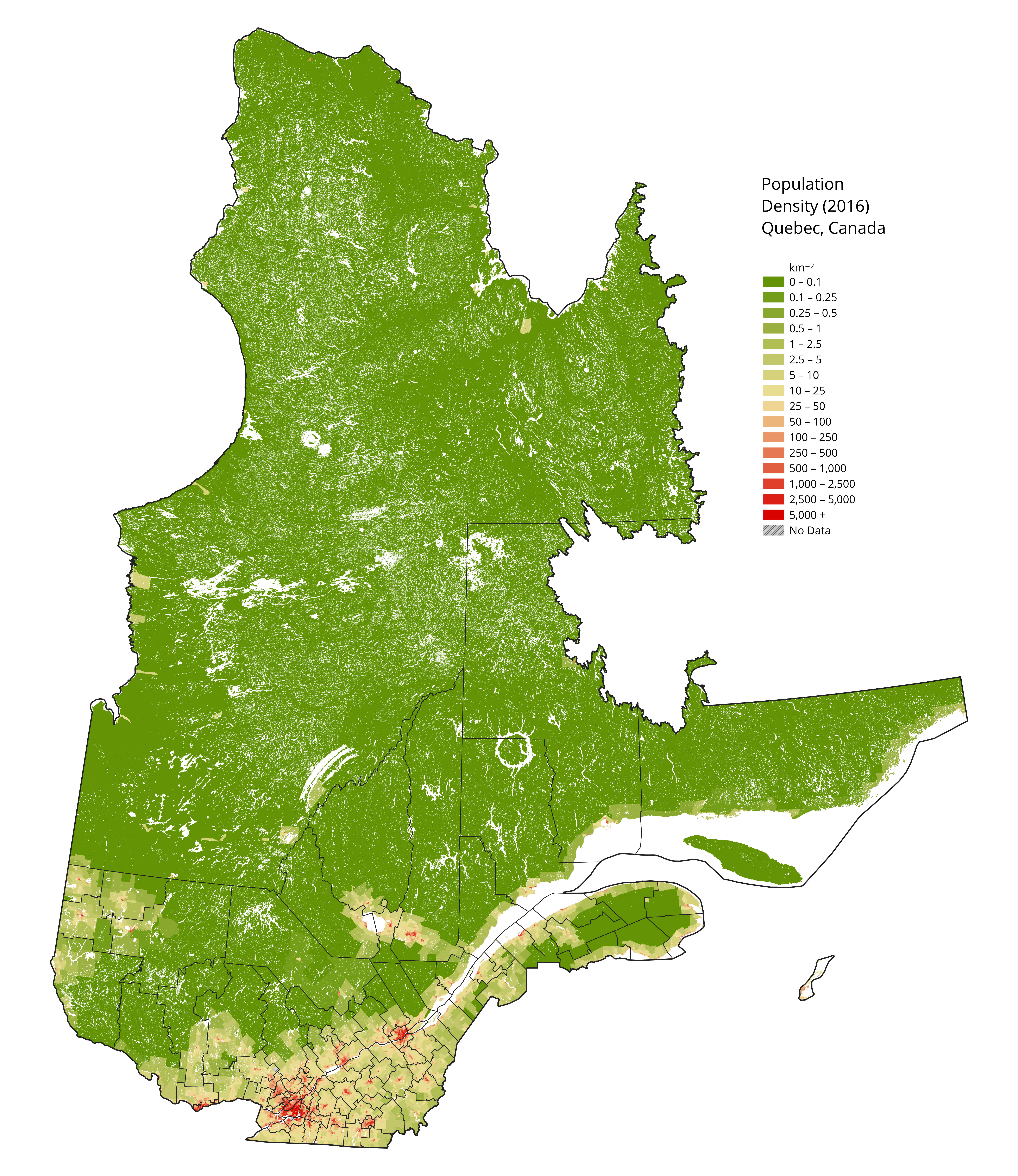 Population density map of Quebec, Canada. Boundary open data and final counts from Canadian 2016 Census accessed on April 22 2018. Waterbodies from WWF HydroLAKES database.